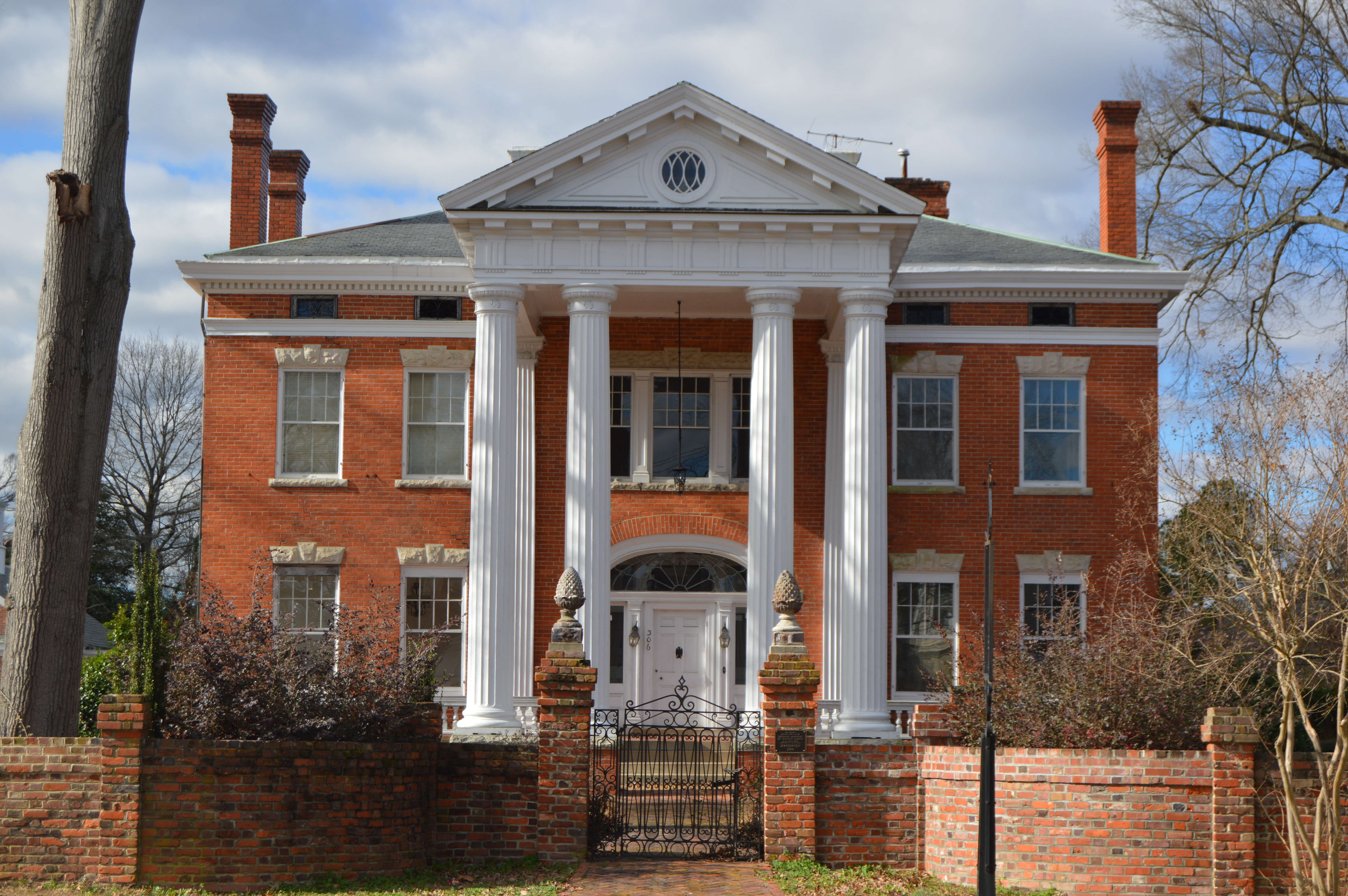 Front of Machaven, located at 306 S. Grace Street in the Nash County section of Rocky Mount, North Carolina, United States. Built in 1907, it is listed on the National Register of Historic Places, and it is part of a Register-listed historic district, the Villa Place Historic District.